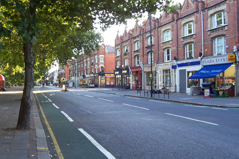 Parsons Green area, looking north along New Kings Road, 2004 Uploaded by Quaidy.